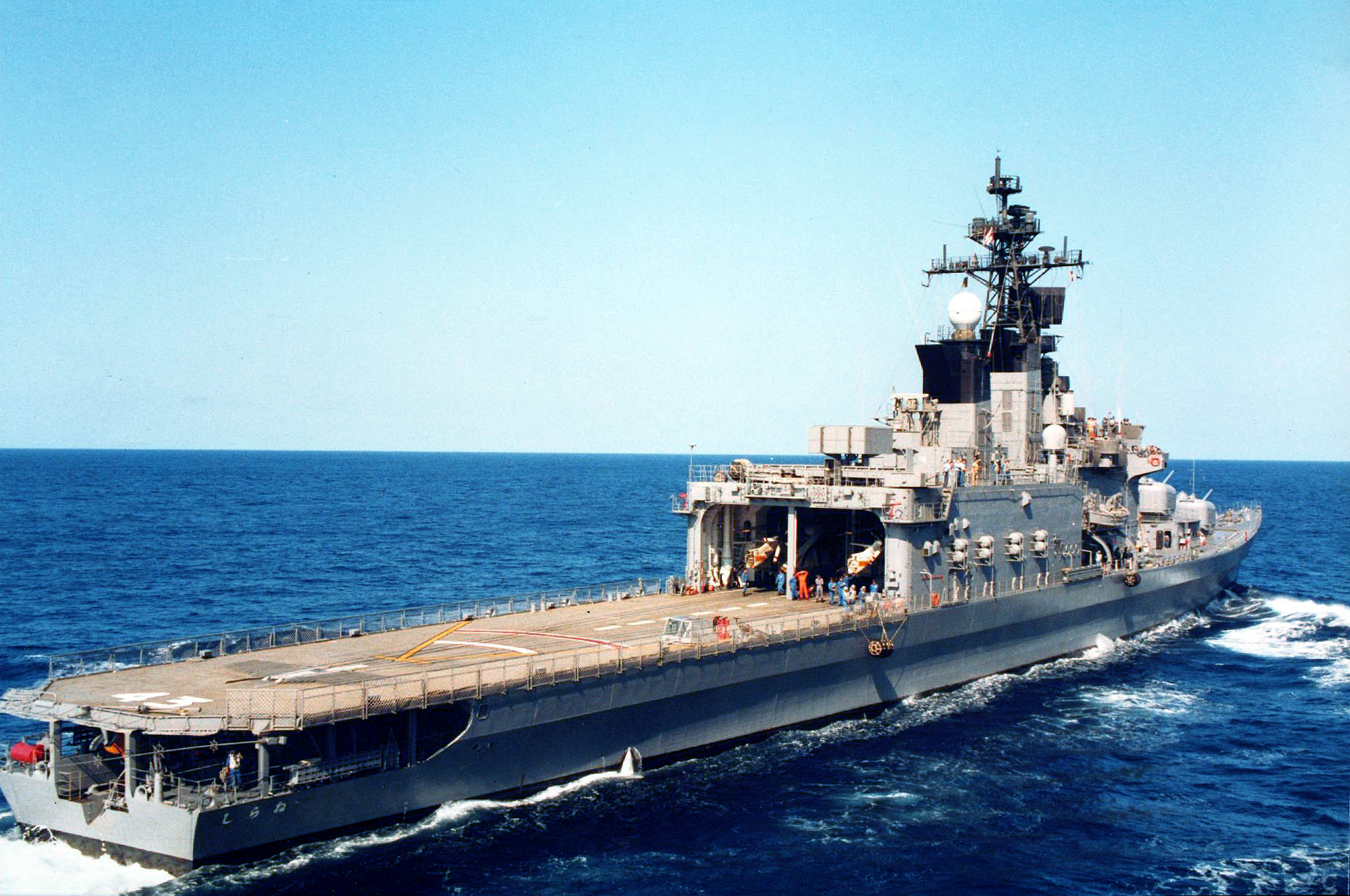 JS Shirane (DDH-143) underway.